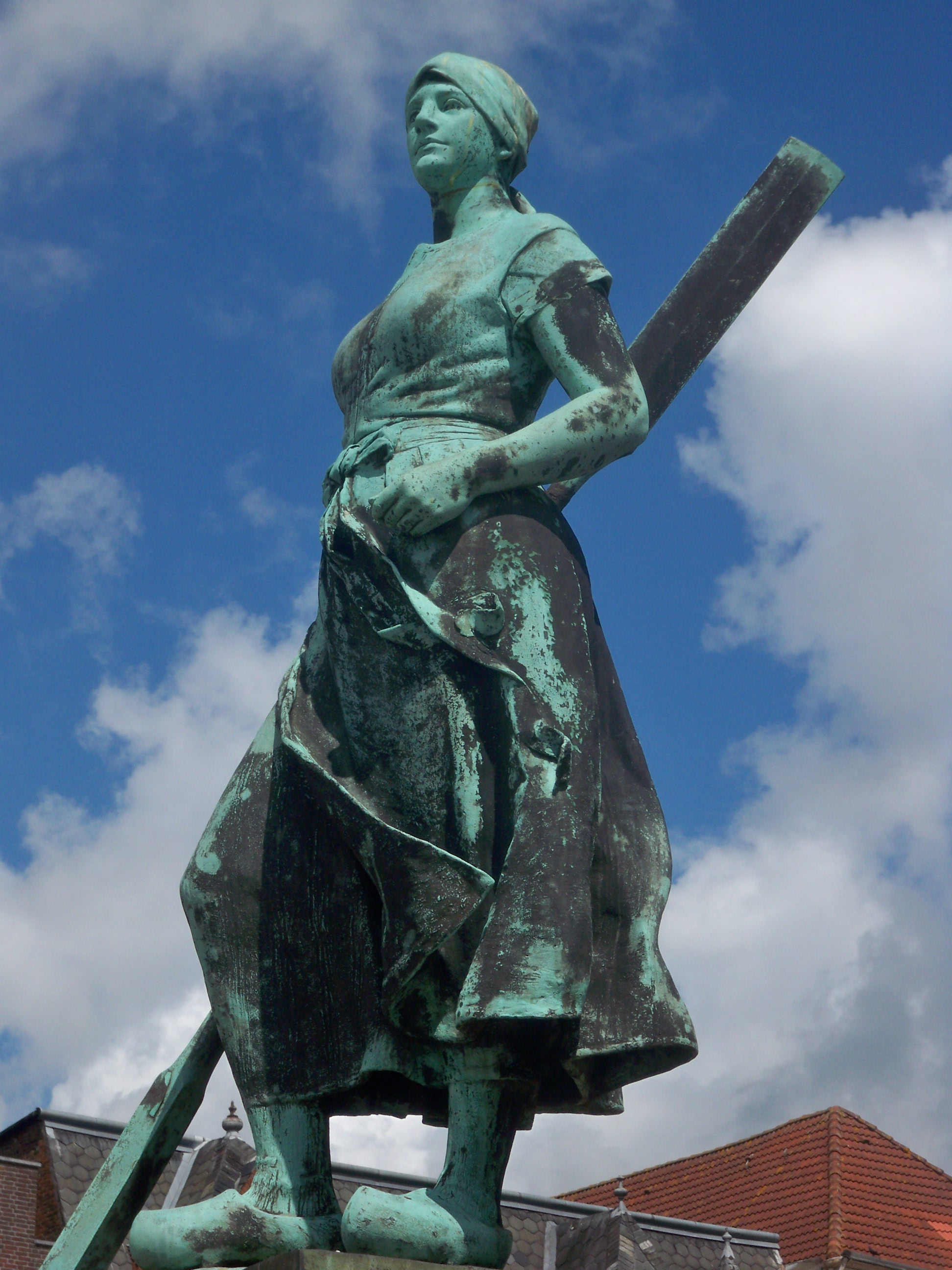 Husum, Schleswig-Holstein, monument of a female farmer "Tine" from the "Hallig" Islands